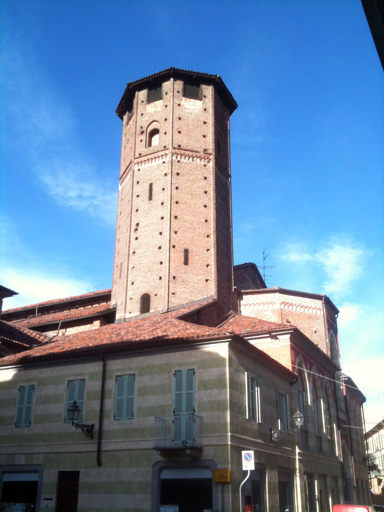 Torre Avogadro di Vercelli